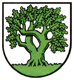 Coat of arms of Unterböhringen in Bad Überkingen